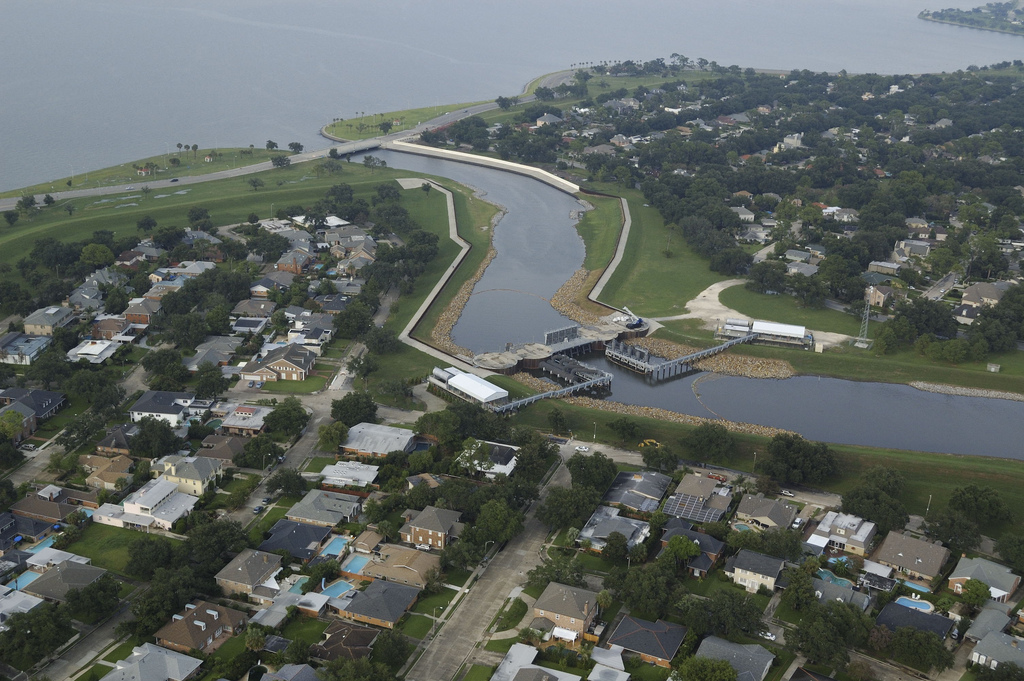 NEW ORLEANS, La. — The Orleans Avenue Canal Interim Control Structure. (U.S. Army Corps of Engineers photo by Paul Floro)